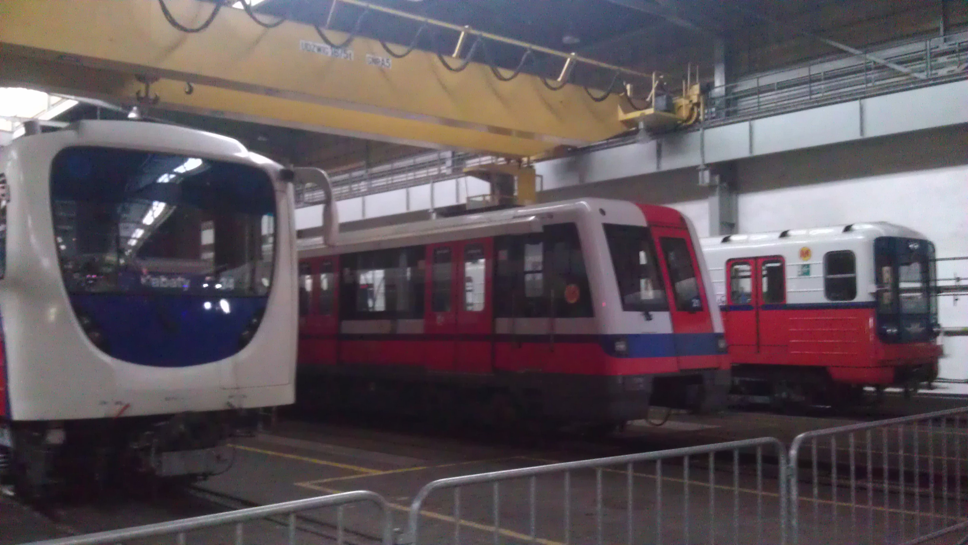 Warsaw Metro Trains